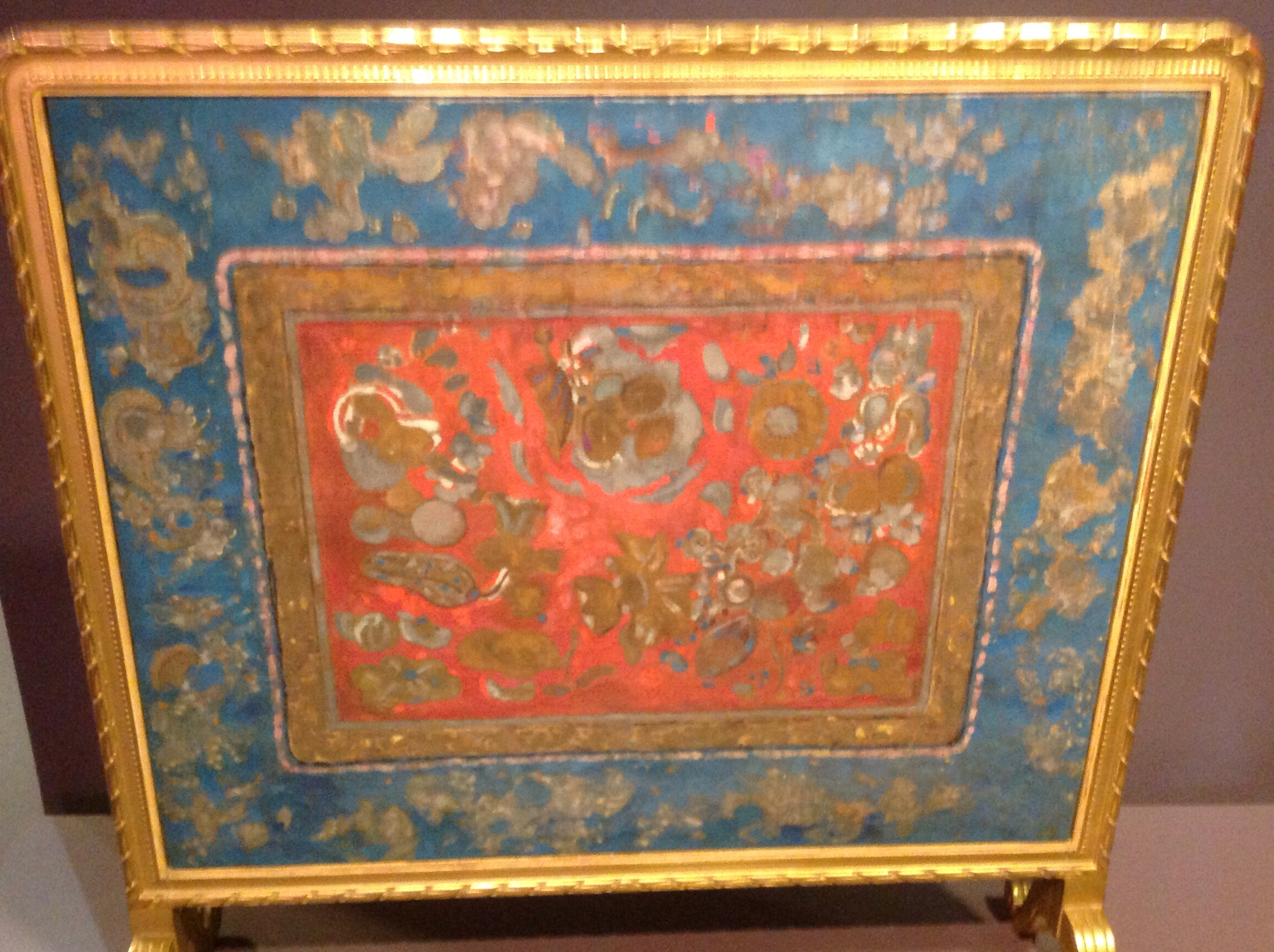 A fireplace screen painted by symbolist painter Odilon Redon (1908), on display in the Musee d'Orsay, Paris